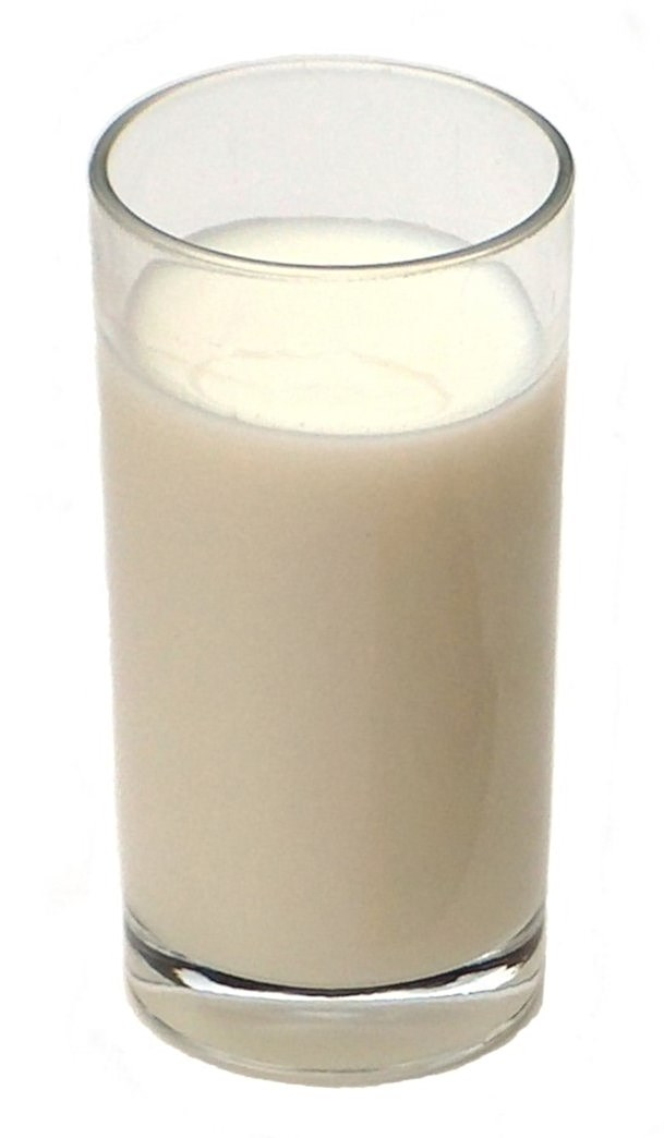 milk is cool from olly claxton